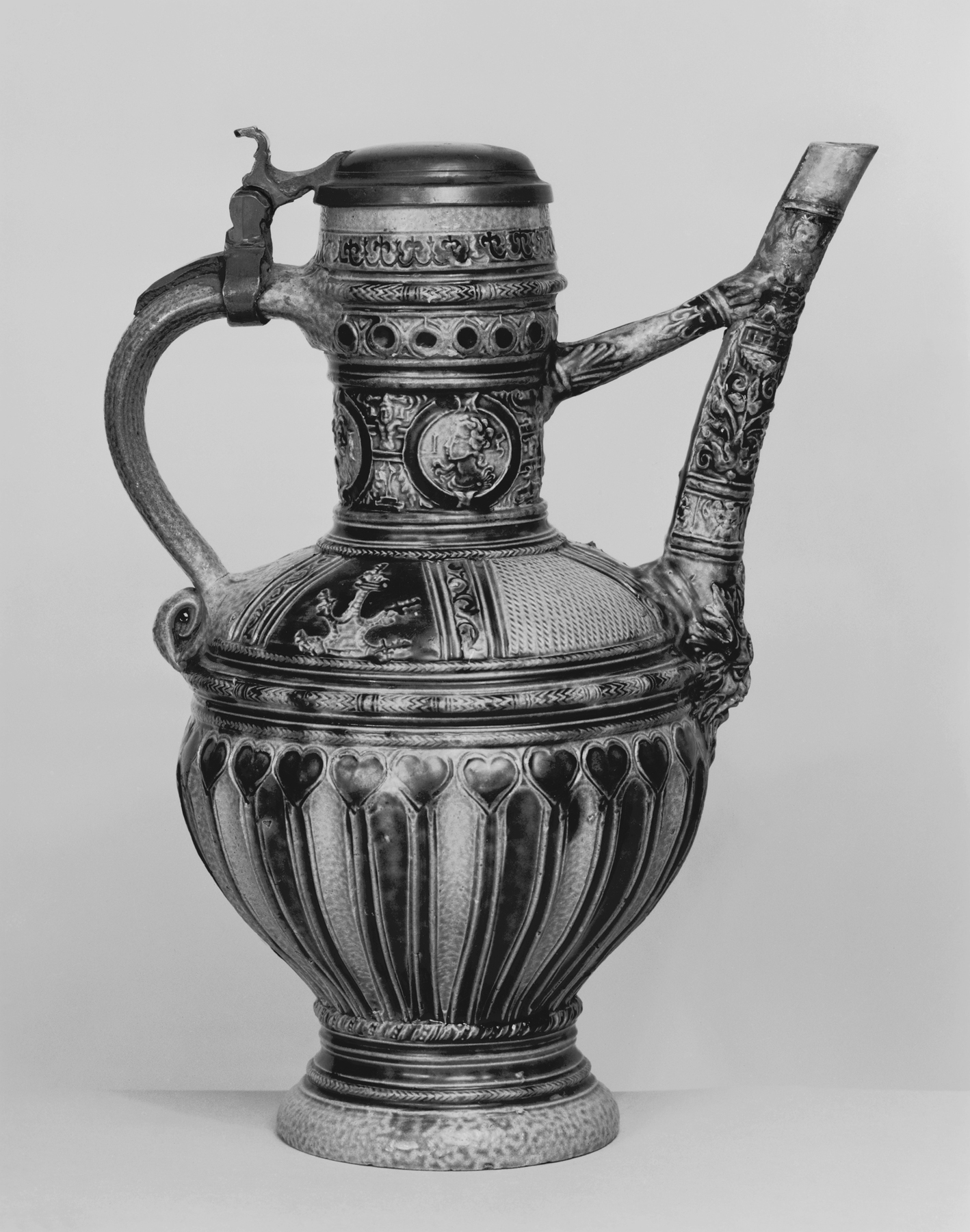 Very structured incised, stamped, and applied decoration covering nearly the entire vessel is characteristic of later 16th-century stoneware in the Rhineland, especially the Westerwald region. Horizontal bands around the middle separate vertical stripes at the bottom that imitate the pattern called "gadrooning" in higher-status contemporary glassware designs (imitating Roman glass) from divided fields of alternating patterns or motifs above. The decorative effect is accentuated by selectively painting cobalt blue oxide on the naturally gray body prior to salt glazing during firing. This type is also called a "beaked" jug or pot, a Stegkanne, Tüllenkanne in German.